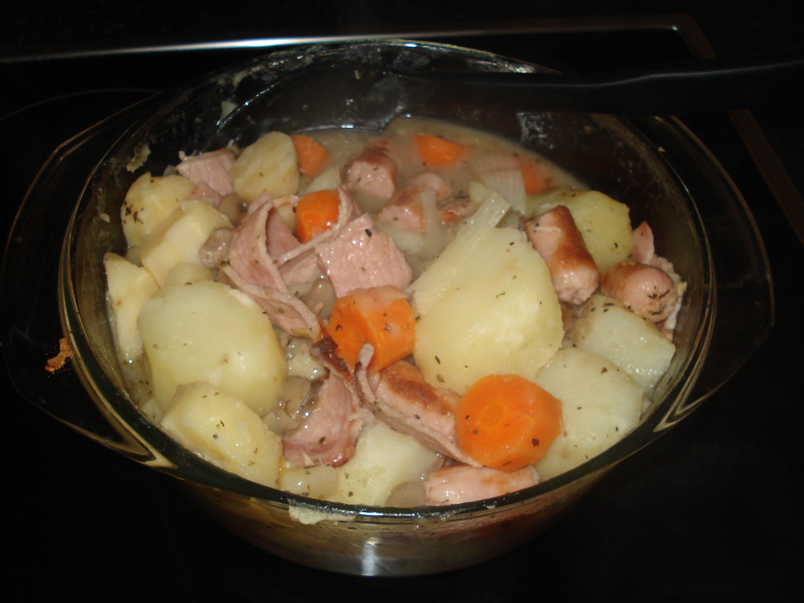 I made this dish myself for the crowd of foreigners in work as part of a multicultural food week we had - for the craic. Took the picture straight after it came out of the oven, and it was damn nice !